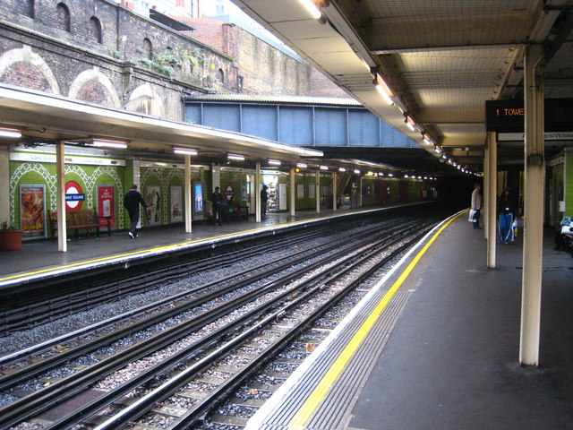 Sloane Square tube station The steel conduit carries the River Westbourne through the railway cutting.